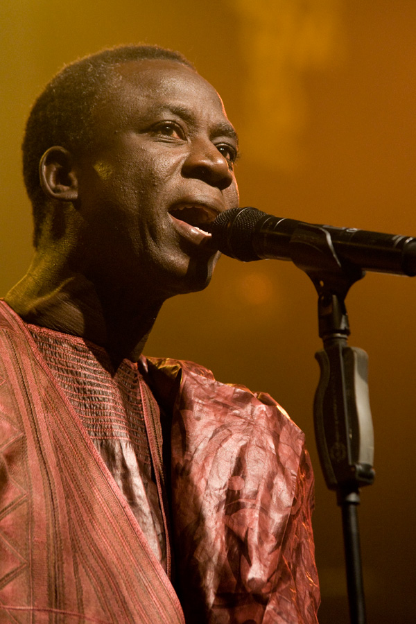 Thione Seck, moers festival 2011